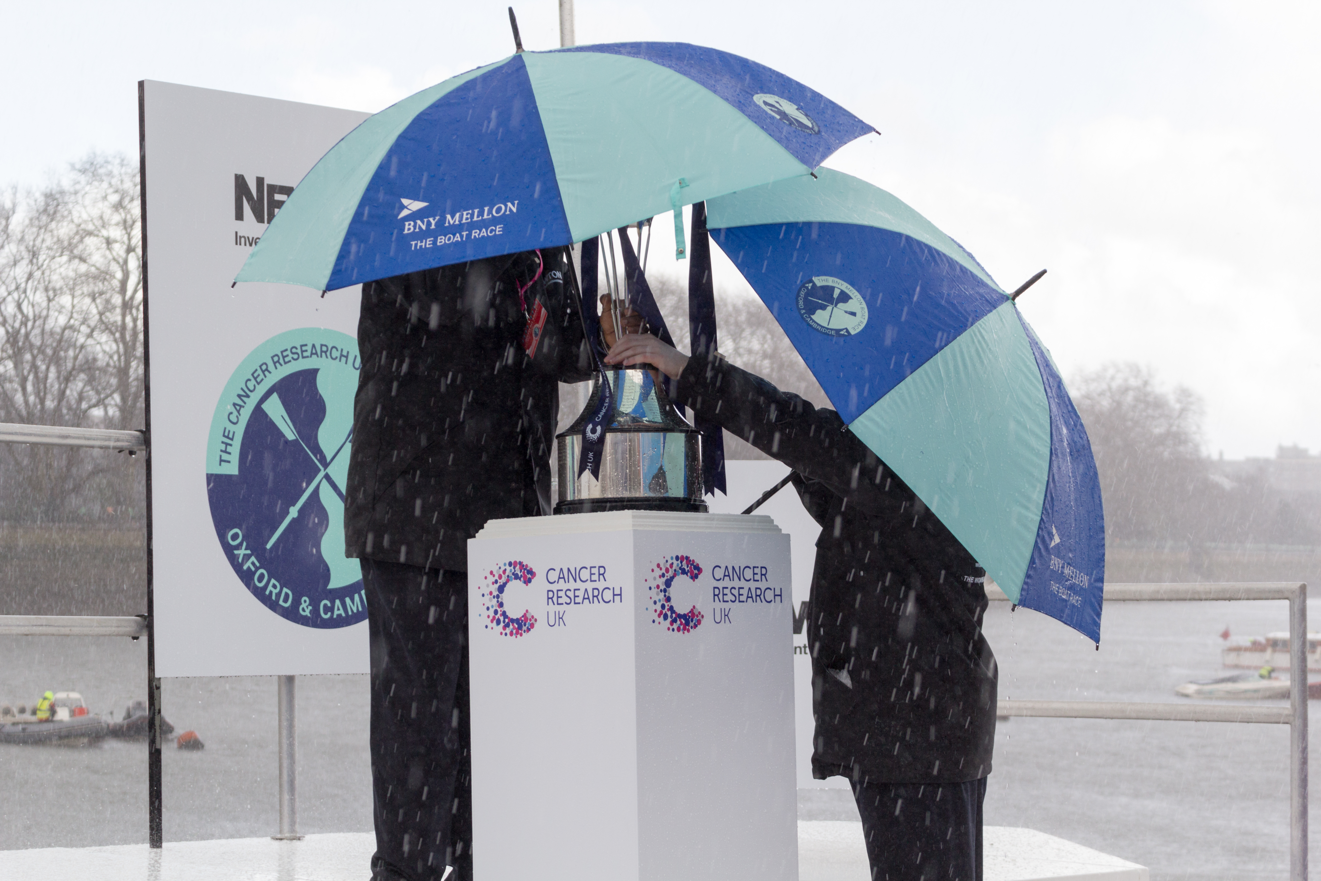 The trophy for The Boat Race, shown here during a brief hailstorm before the 2016 race.